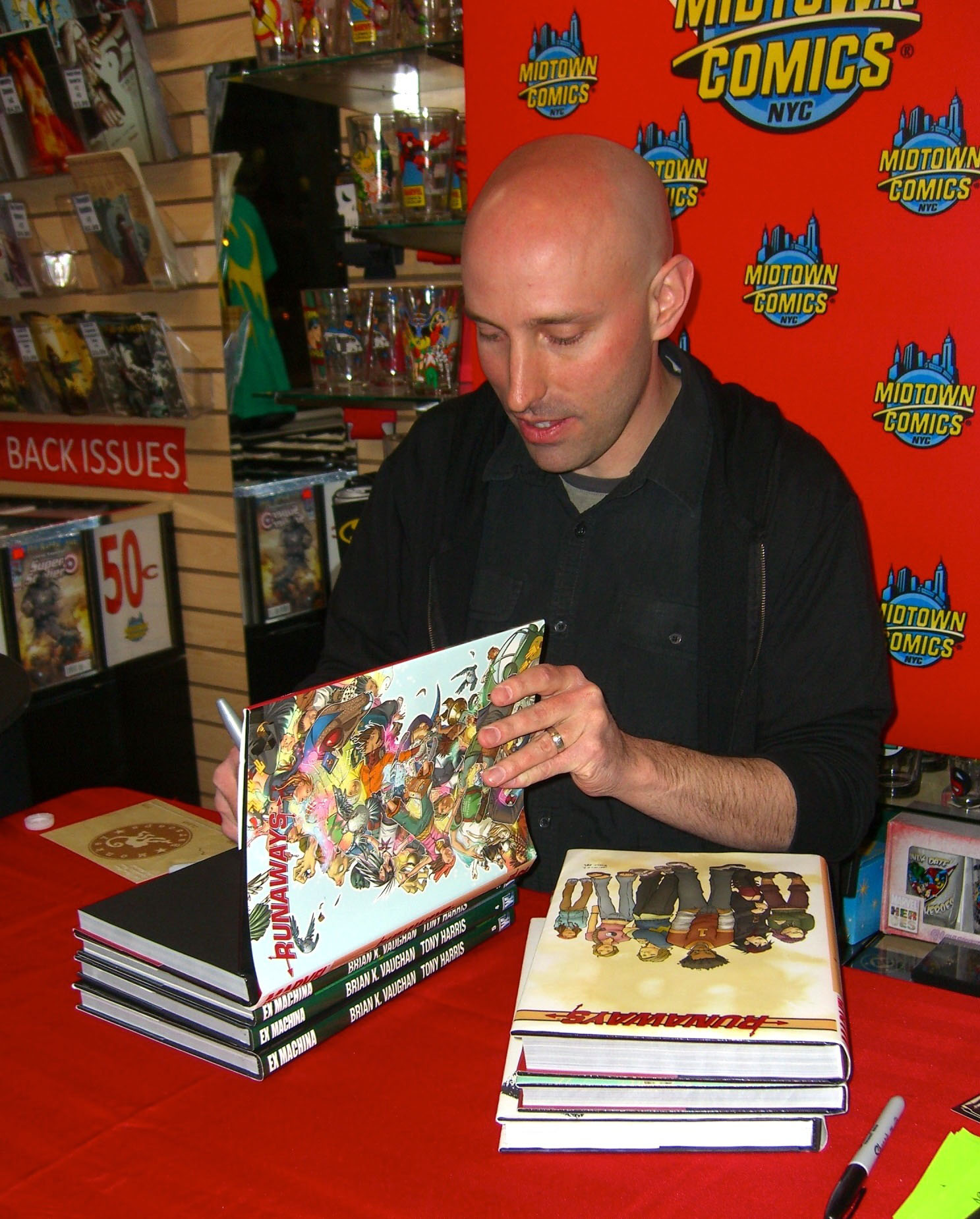 Comics and television writer Brian K. Vaughan at a March 15, 2012 signing for Saga #1 at Midtown Comics Downtown in Manhattan. In the photo, Vaughan is signing copies of Runaways, a previous series that he created and wrote. This photo was created by Luigi Novi. It is not in the public domain, and use of this file outside of the licensing terms is a copyright violation.